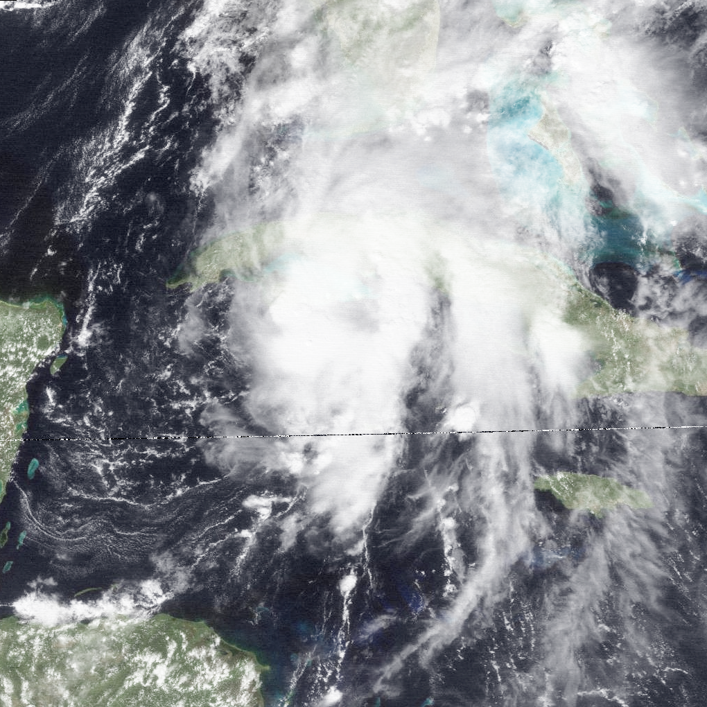 Tropical Storm Fabian near peak intensity shortly before landfall in Cuba on October 15, 1991